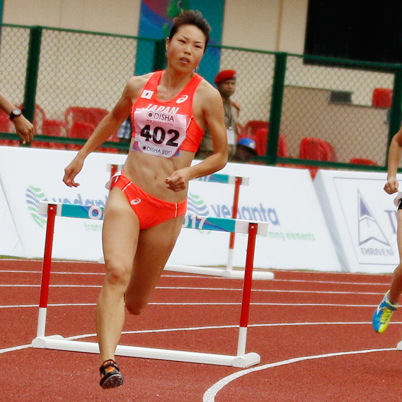 from the 22nd Asian Games in Odisha. 2017 Asian Athletics Championships. 6 to 9 July 2017 at the Kalinga Stadium in Bhubaneswar